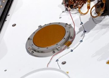 The left eye of the two-camera Mast Camera (Mastcam) instrument on NASA's Mars rover Curiosity took the images combined into this mosaic of the rover's upper deck. The images were taken in March 2011. At the time, Curiosity was inside a space simulation chamber at NASA's Jet Propulsion Laboratory, Pasadena, Calif., for testing under thermal conditions like those the rover will experience on the surface of Mars. Presented here Radiation Assessment Detector seen by left Mastcam photo is cropped from a mosaic of interconnected images.